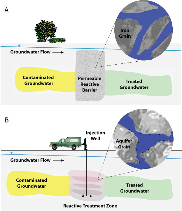 Different types of "iron wall" permeable reactive barriers